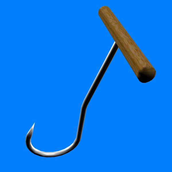 Longshoreman's hook; drawing